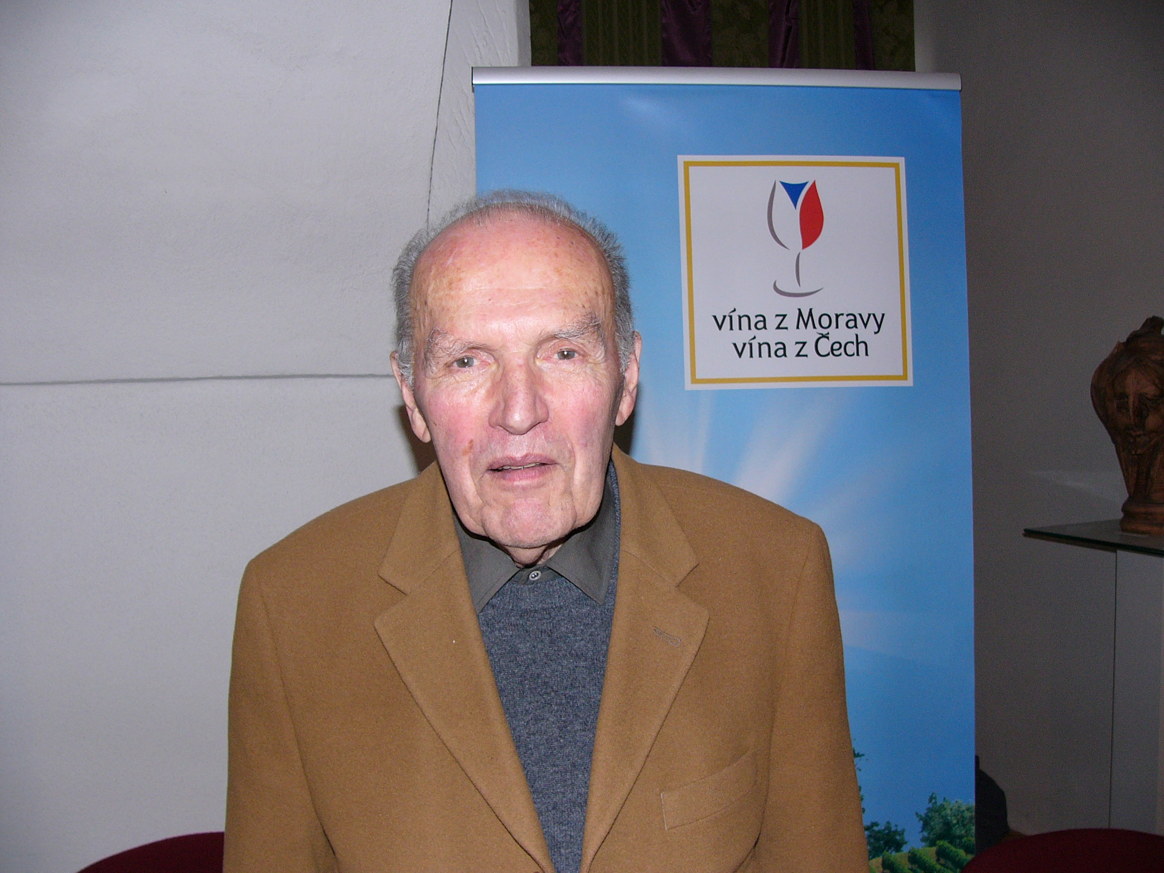 Professor Vilém Kraus at international conference Nové odrůdy révy v ČR in Znojmo, 27 November 2008.